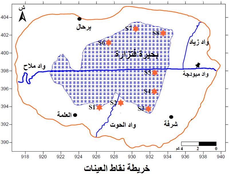 Lake of Fetzara